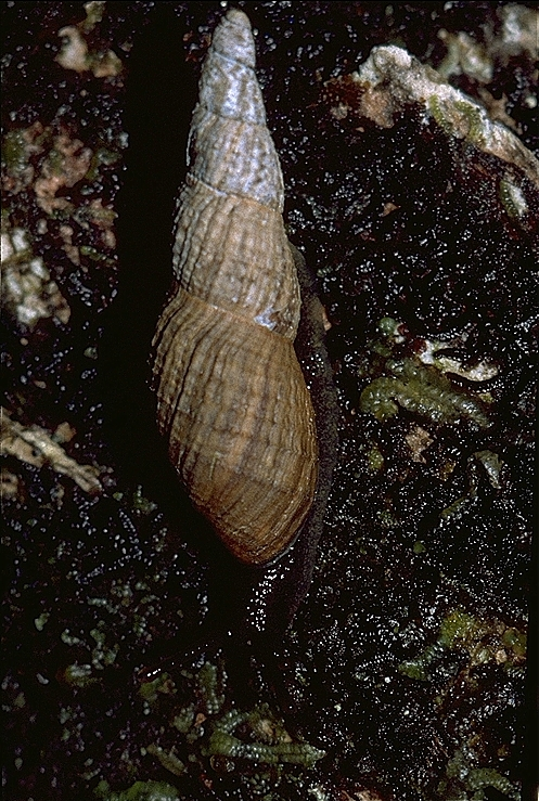 Newcomb's tree snail Newcombia cumingi. A member of the family Achatinellidae and the endemic Hawaiian subfamily Achatinellinae, is known only from the island of Maui. All members of this species have sinistral (left-coiling), oblong, spindle-shaped shells of five to seven whorls that are coarsely sculptured. Newcomb’s tree snail reaches an adult length of approximately 0.8 in (21 mm) and its shell is mottled in shades of brown that blend with the bark of its native host plant, Metrosideros polymorpha or the ohia tree.